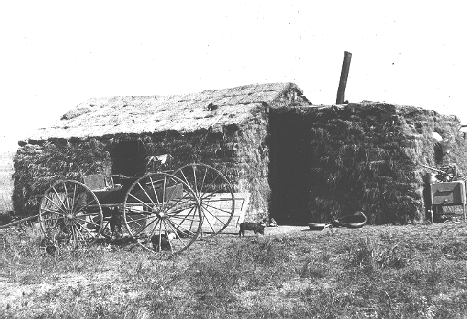 A sod house from the United States prairie frontier, 1901.